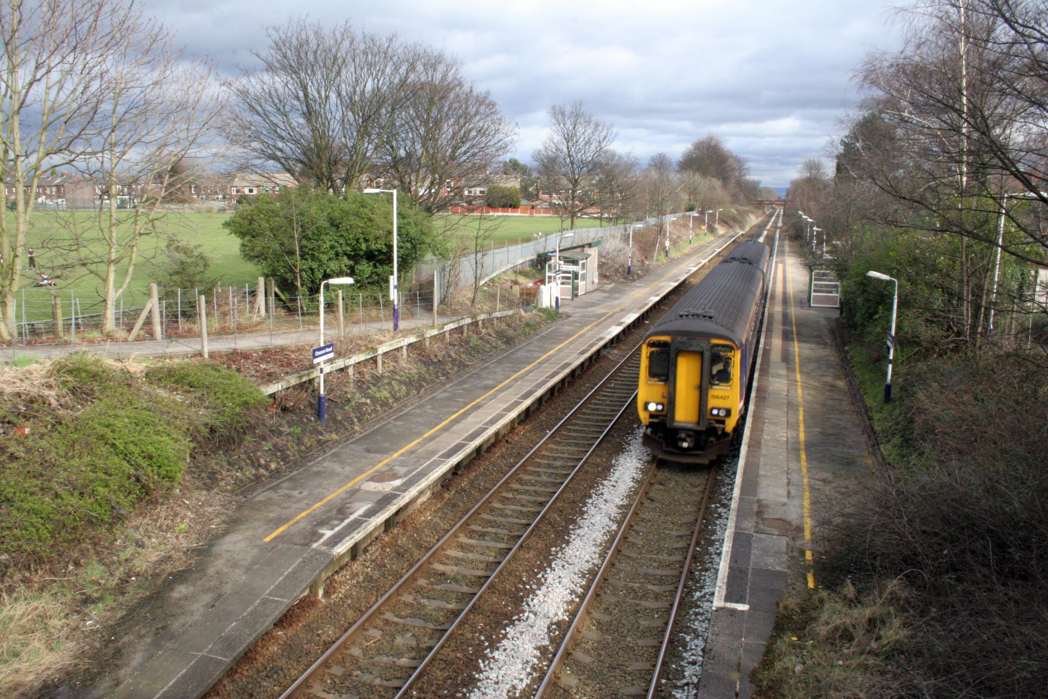 Chassen Road station, viewed from the bridge.